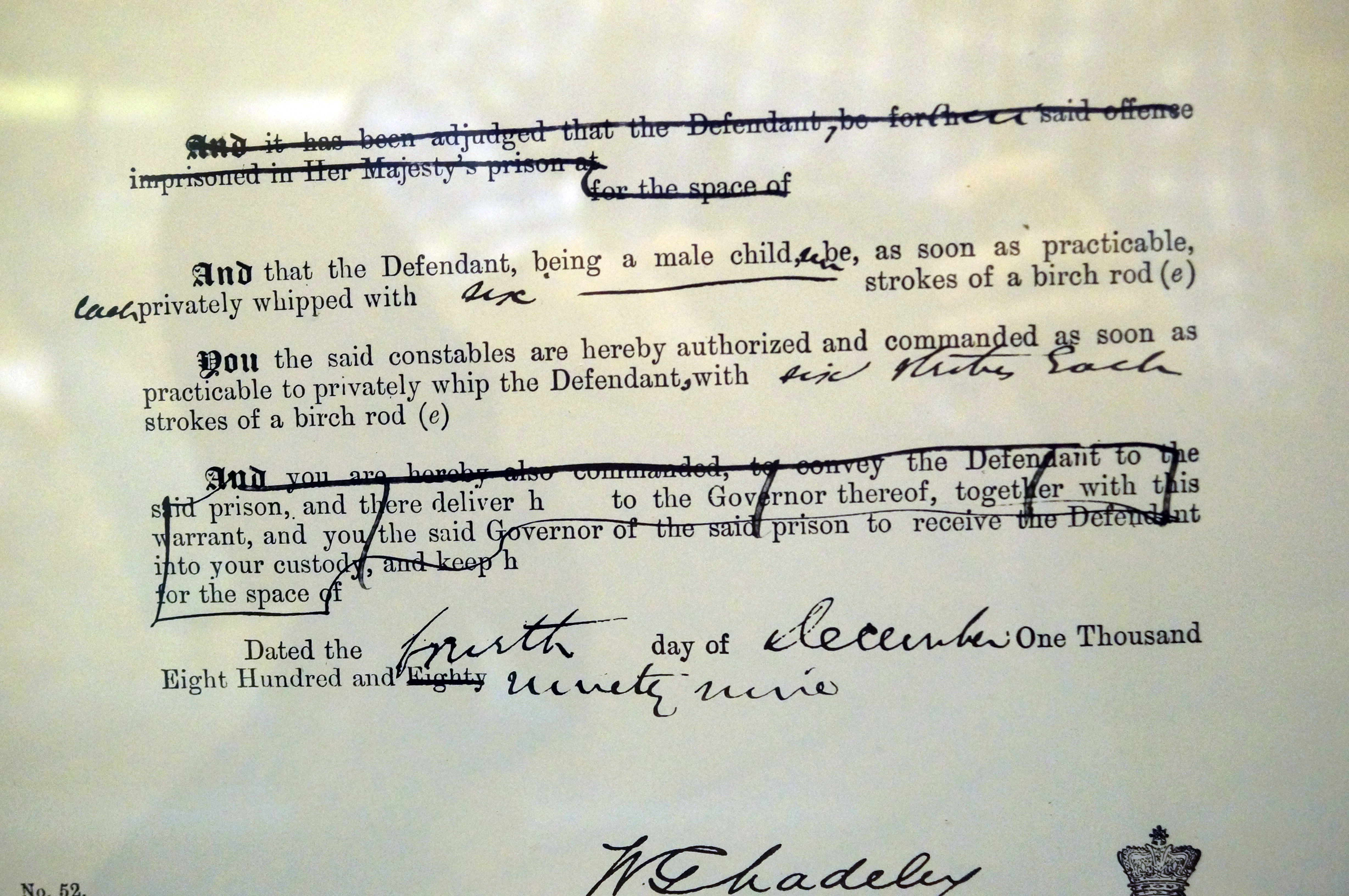 A magistrate’s committal for birching of two children dated 4 December 1899 displayed in West Midlands Police Museum, Sparkhill, Birmingham, England. This relates to Sparkhill, now in Birmingham, but formerly in Worcestershire.